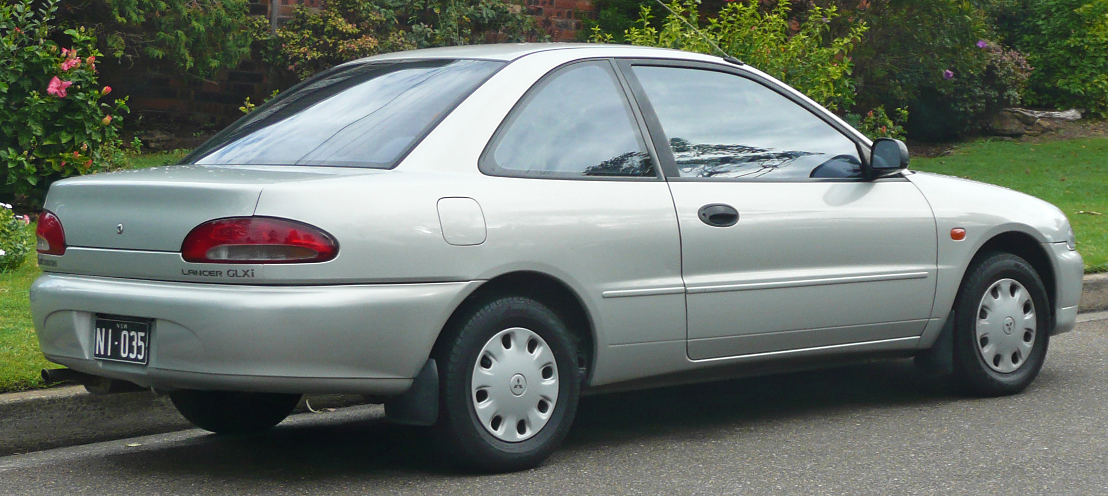 1995 Mitsubishi Lancer (CC) GLXi coupe. Photographed in Cronulla, New South Wales, Australia.